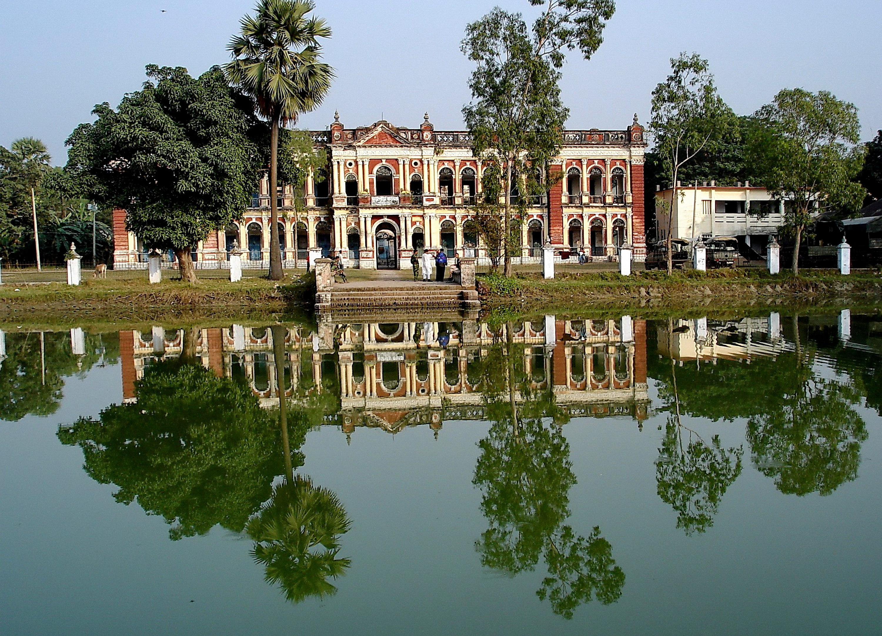 Murapara Rajbari, a well known palace in Rupganj Upazila, in Narayanganj District, Bangladesh